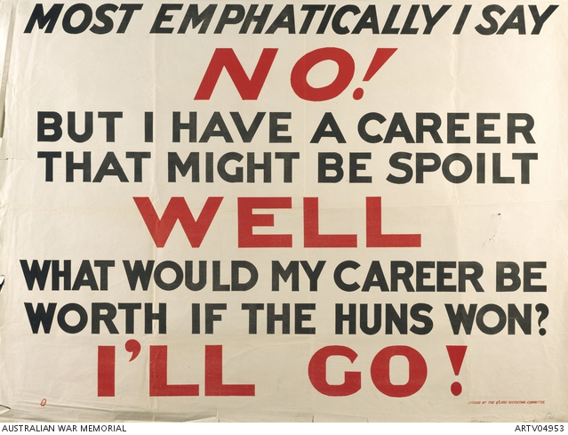 Most emphatically I say No! - military recruitment poster in World War I by the Queensland Recruiting Committee